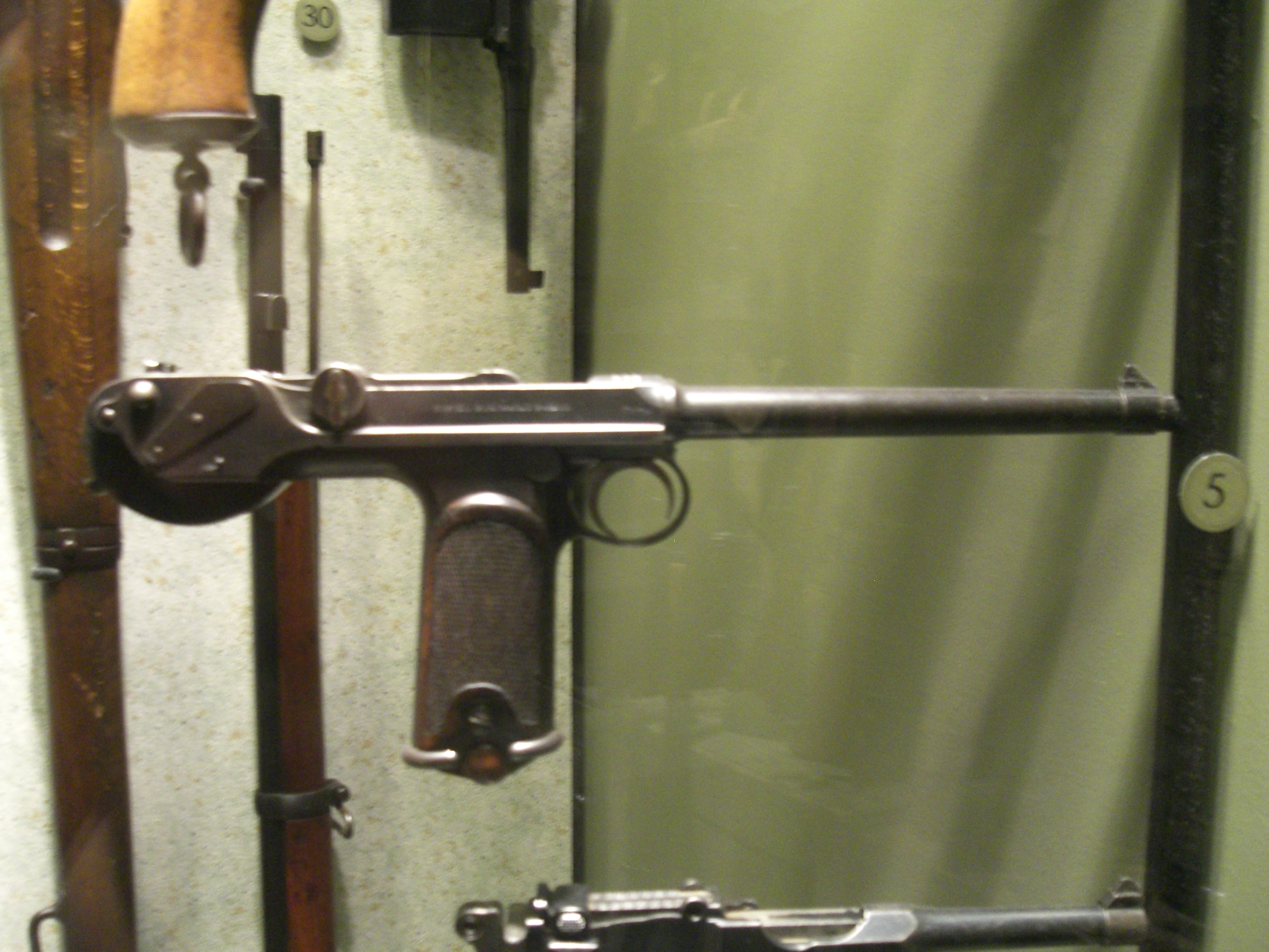 A Borchardt C-93 pistol at the National Firearms Museum